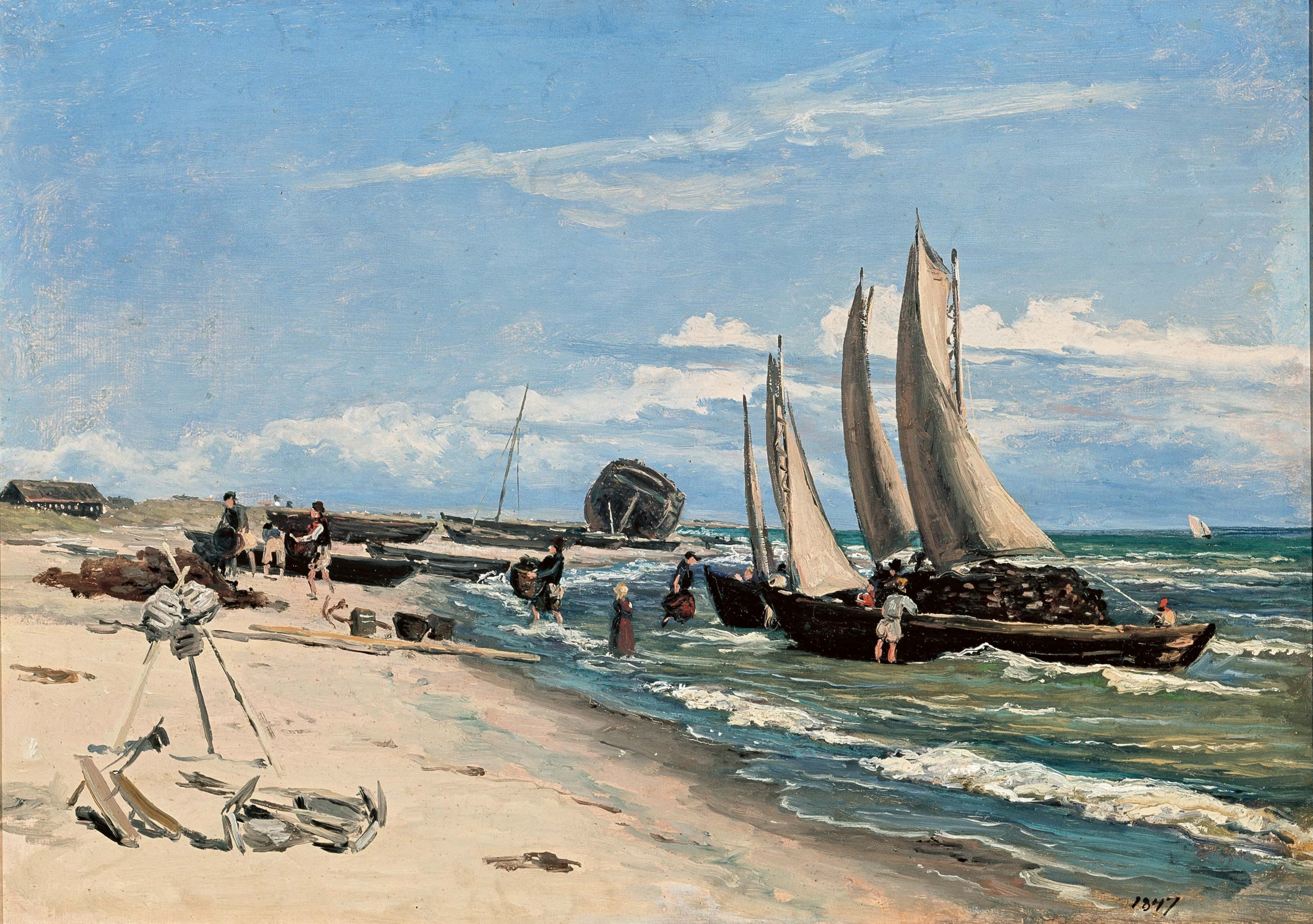 Painting by Martinus Rørbyem see here for details